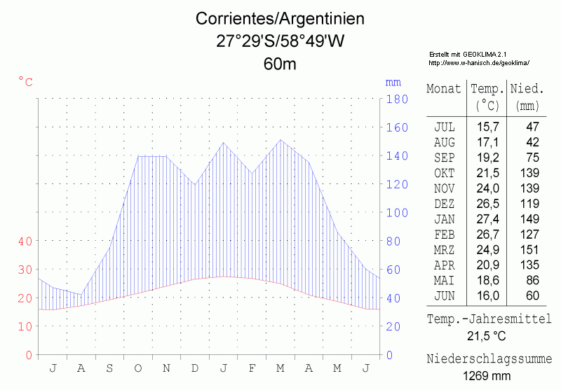 climate chart in the format by Walther and Lieth